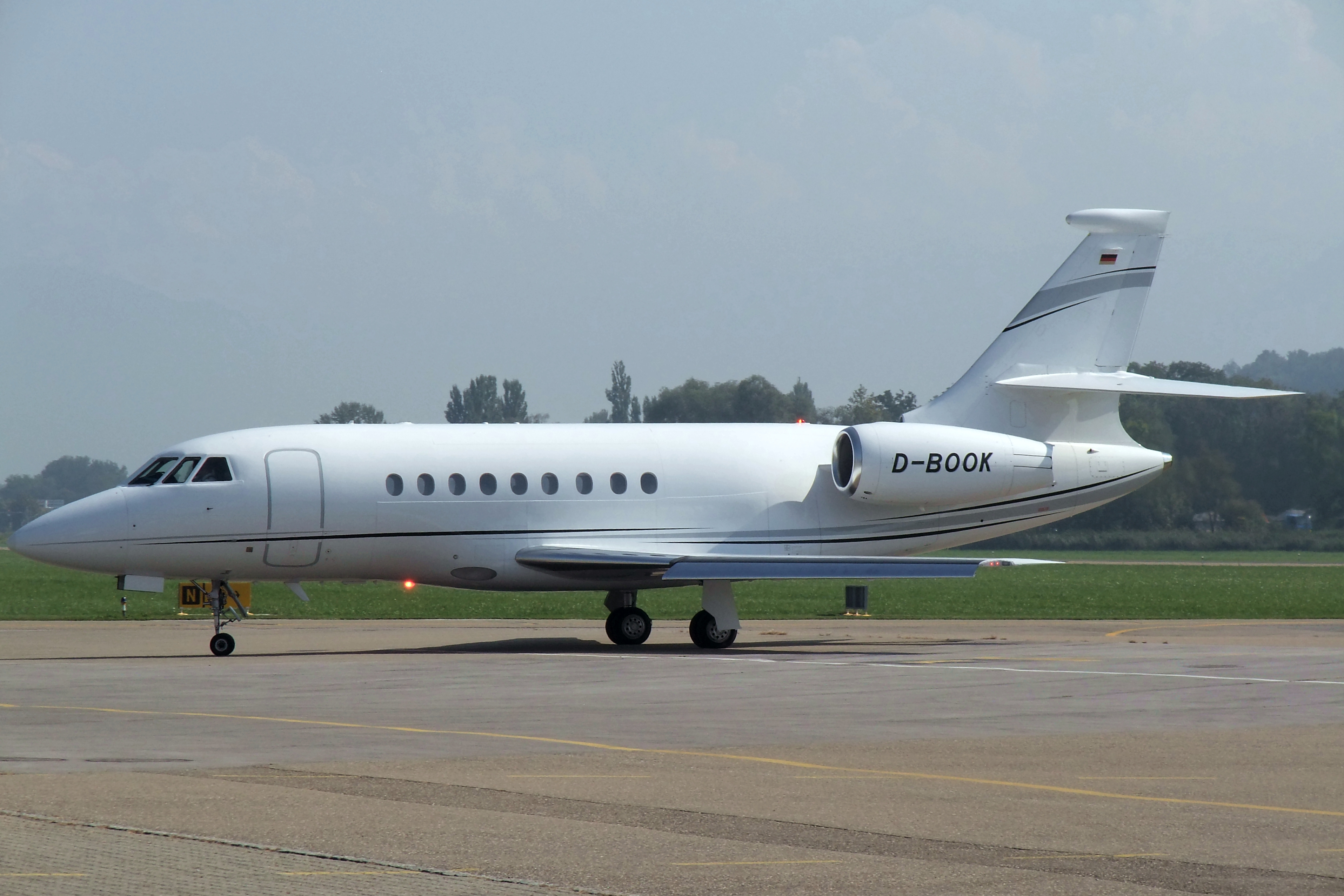 Dassault Falcon 2000EX with the special callsign D-BOOK of the german publisher and media concern Bertelsmann AG. Airport St. Gallen-Altenrhein, Switzerland, Sep 26, 2011.